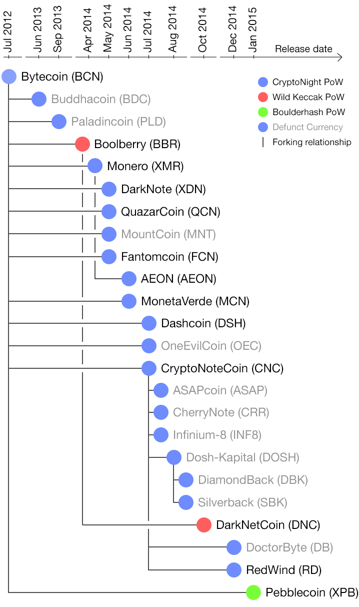 Fixed forks tree for CryptoNote coins.